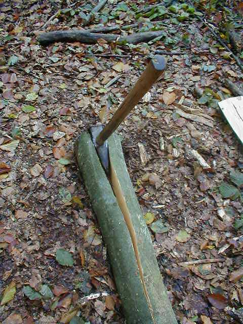 simple tool to split wood called "merlin" in walloon Walon: merlin po rfinde ene pitite rouyete di hesse (portrait saetchî pa L. Mahin).